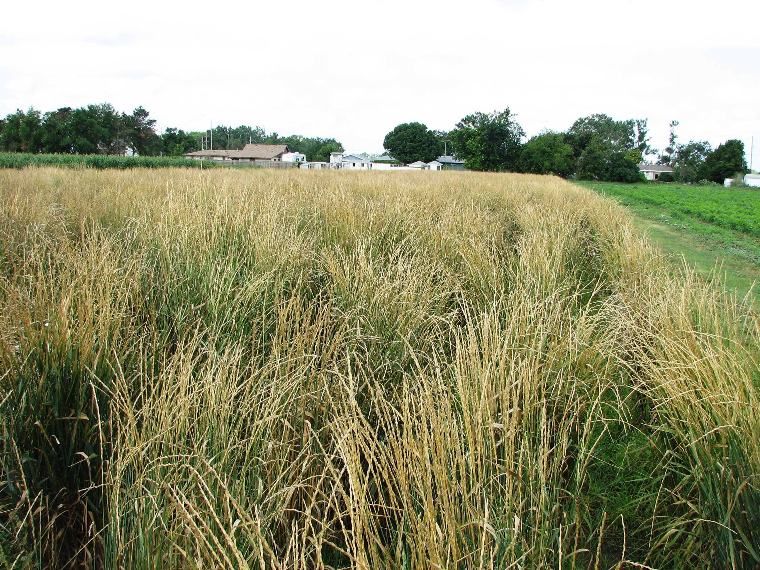 Breeding Nursery containing 4000 individual plants, ready for harvest.